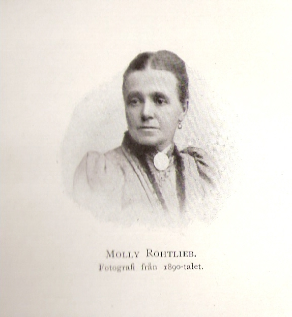 Molly Rohtlieb